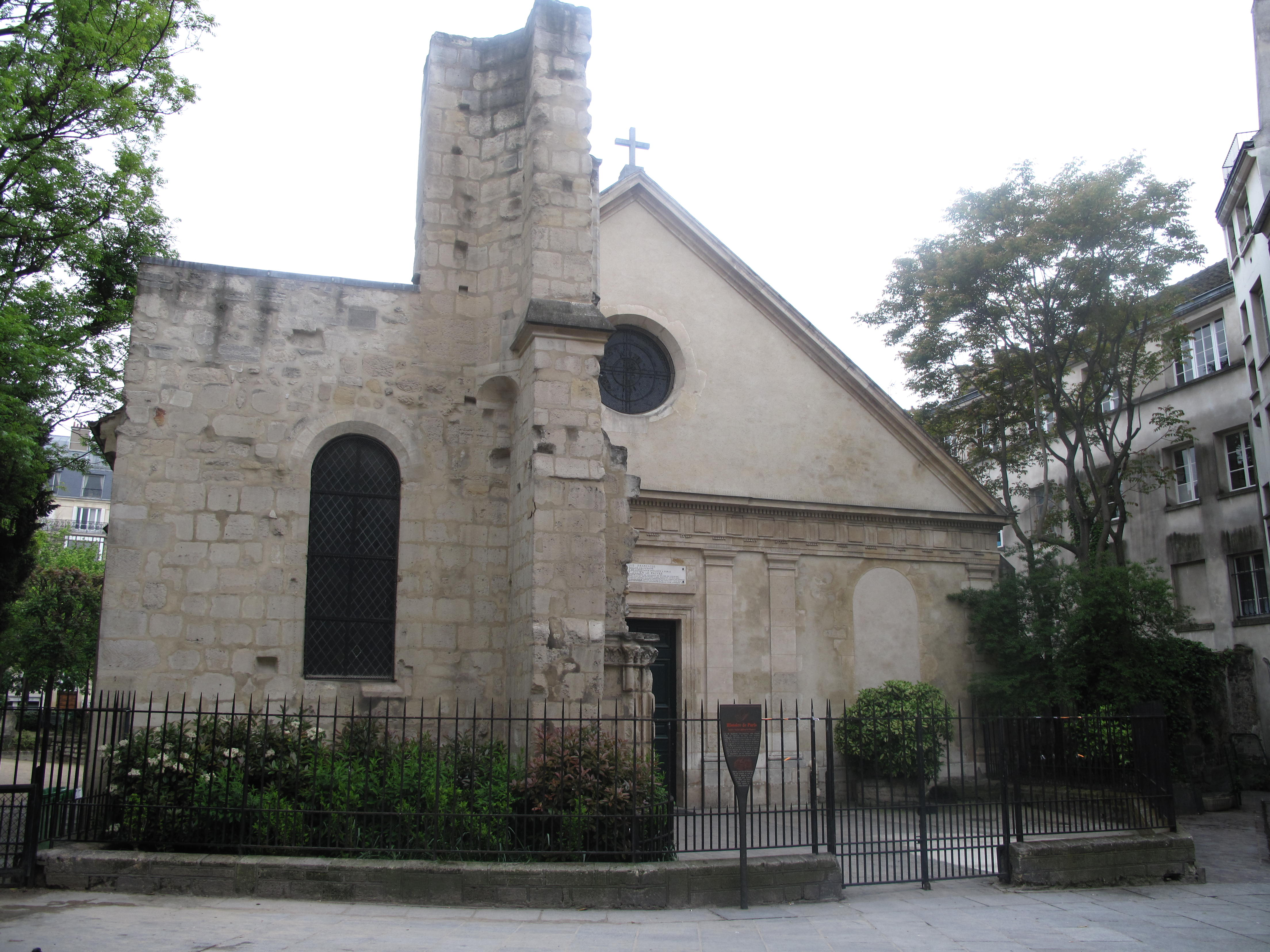 Church Saint-Julien-le-Pauvre, Paris 5th arr.